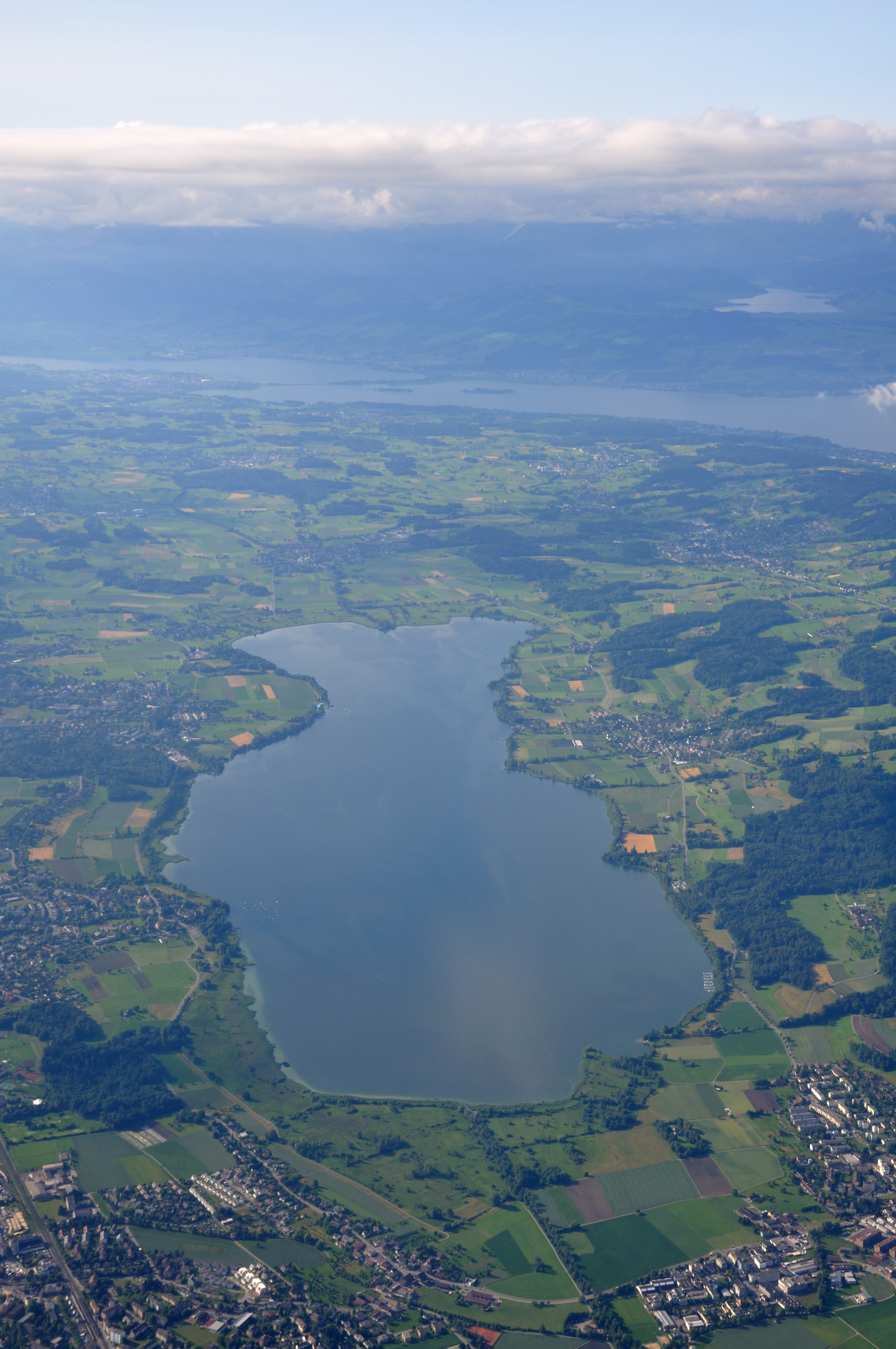 Switzerland, Canton of Zürich, view of Greifensee and surroundings while climbing out from runway 28 at Zurich International Airport in a wide left turn eastbound.